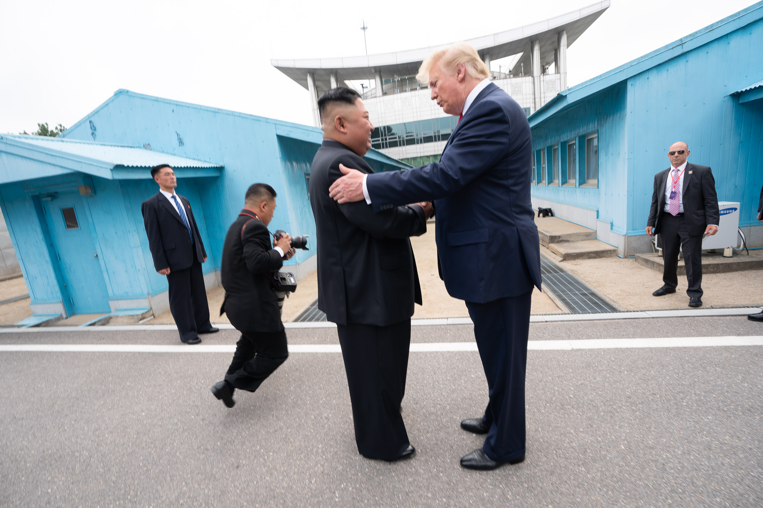 President Donald J. Trump, joined by Chairman of the Workers’ Party of Korea Kim Jong Un, makes history Sunday, June 30, 2019, as he becomes the first sitting U.S. President to step foot on North Korean soil, in his meeting with Chairman Kim Jong Un at the Korean Demilitarized Zone. (Official White House Photo by Shealah Craighead)